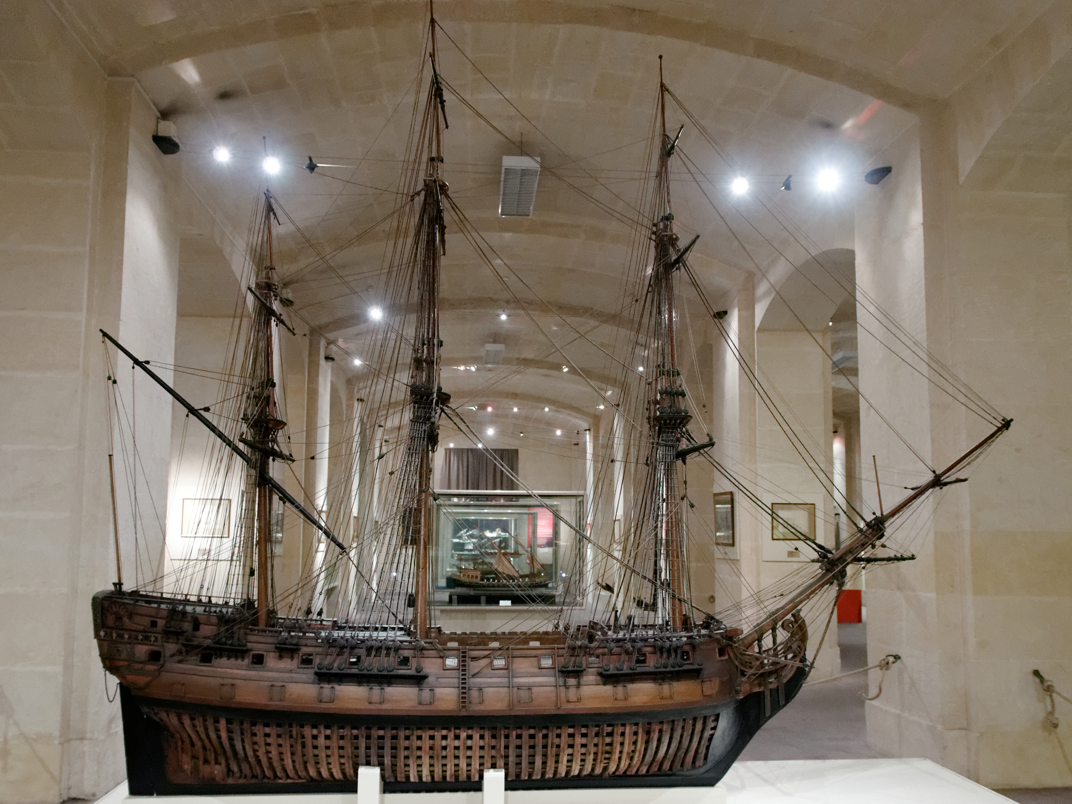 Third-rate ship of the line from the fleet of the Knights of St. John, contemporary model probably used at the local naval school.